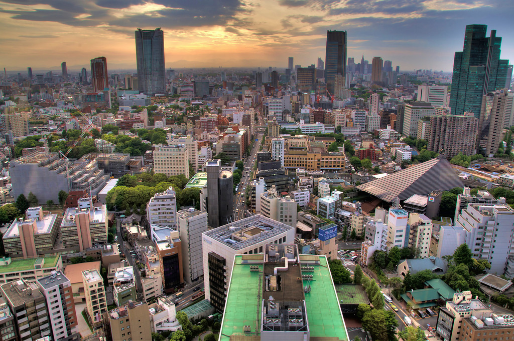 A view of Tokyo at Dusk from the Tokyo Tower - shot in HDR using a Nikon D90.